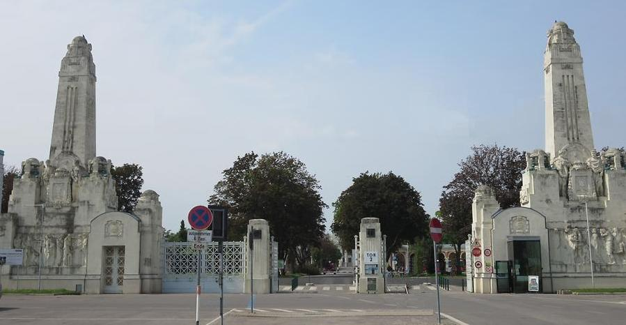 Gate No. 2 Zentralfriedhof in Vienna